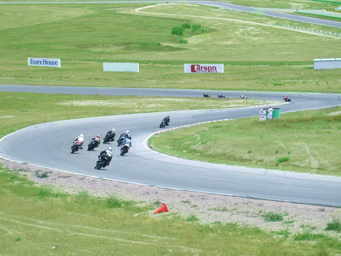 Photo taken by User:Jamesb01 in April 2005. (Nikon 995)